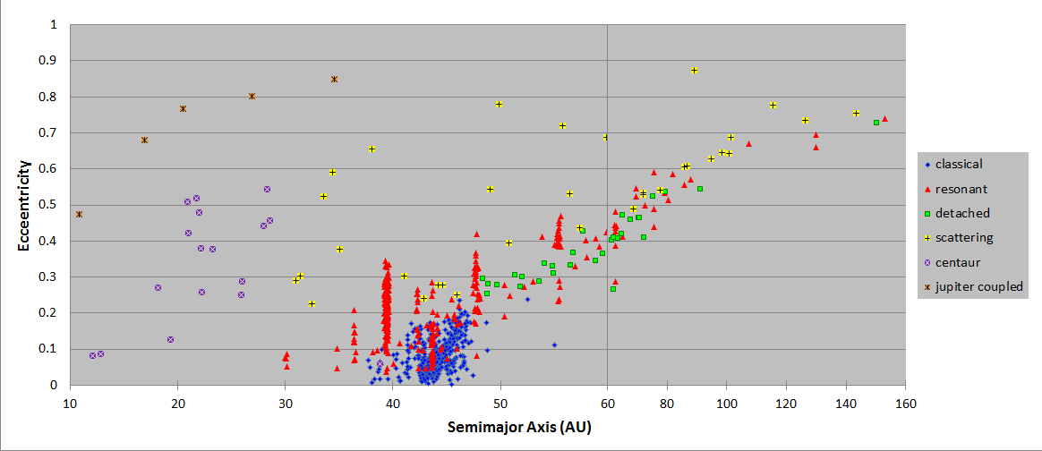 Plot of the semimajor axes and eccentricities of characterized astronomical objects detected by Outer Solar System Origins Survey